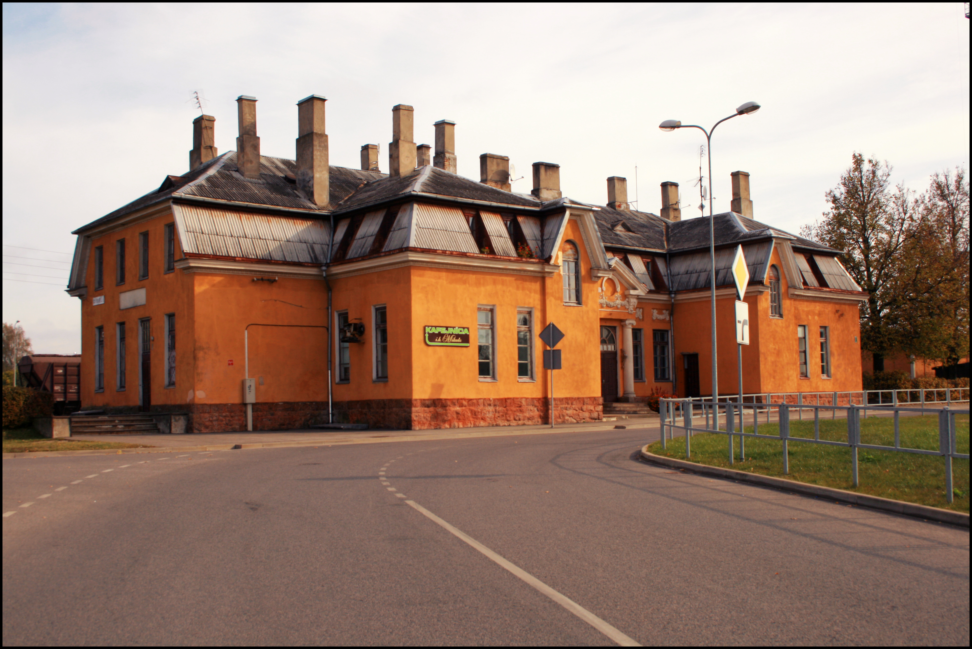 Chimneys on the Dobele railway station